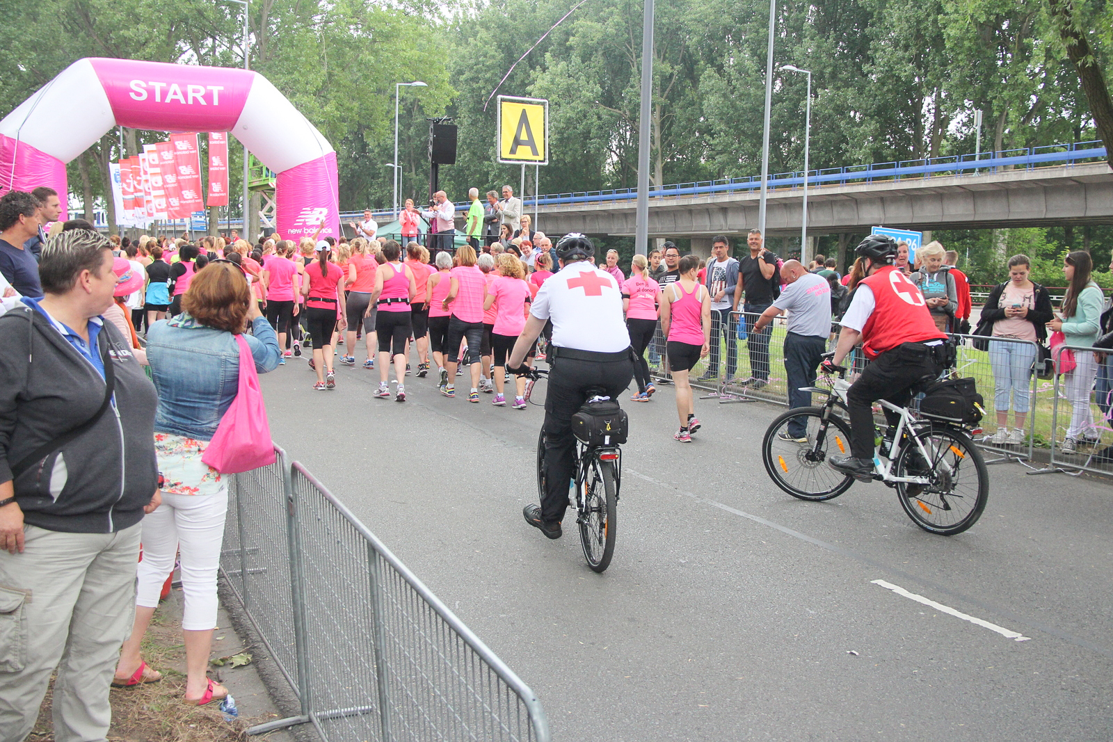 The Red Cross provided a good guidance Ladiesrun 2015